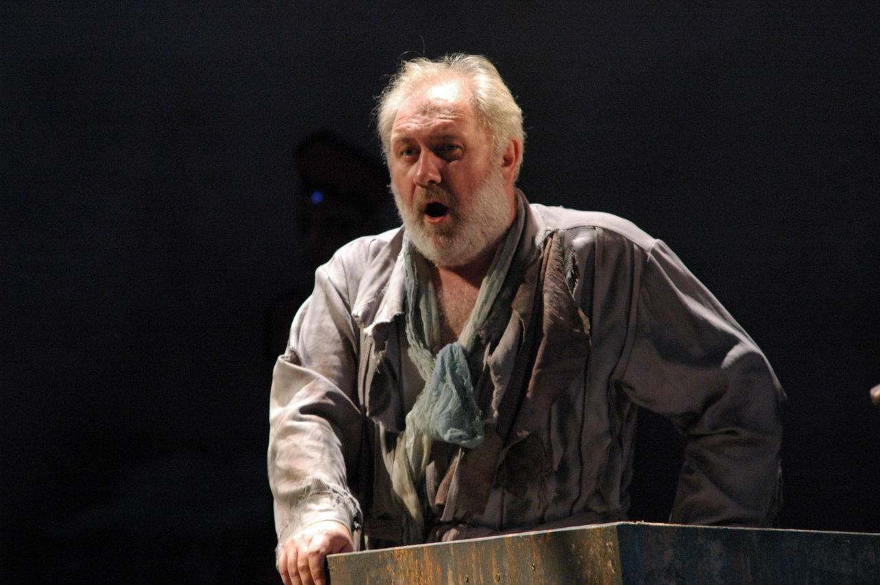 "Katerina Izmailova", an opera by Dmitri Shostakovich; Branislav Jatić (bass), SNT, Novi Sad, 2006/07 Srpski (latinica): "Katarina Izmajlova", opera Dmitrija Šostakoviča; Branislav Jatić (bas), SNP, Novi Sad, 2006/07. Српски (ћирилица): "Катарина Измајлова", опера Дмитрија Шостаковича; Бранислав Јатић (бас), СНП, Нови Сад, 2006/07.